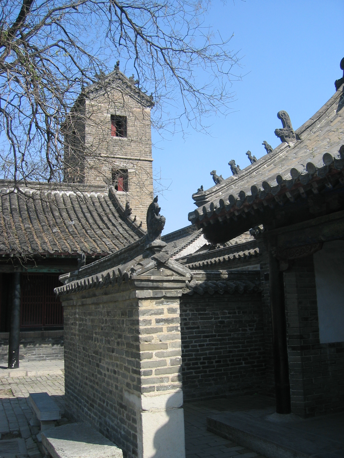 Photograph of the watch tower of the Kong Family Mansion, Qufu, Shandong, China.